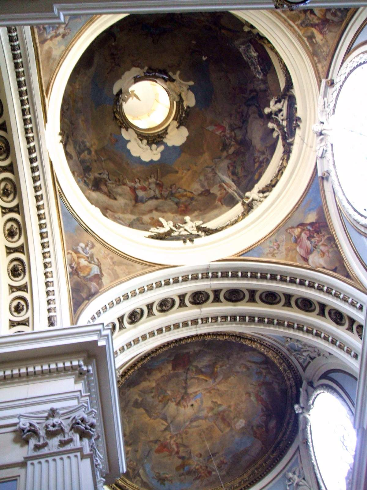 Cúpulas y pechinas de la Basílica del Pilar de Zaragoza. Frescos de Goya